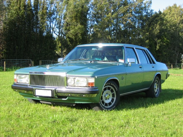 1983 Statesman WB Caprice sedan, photographed in New Zealand.